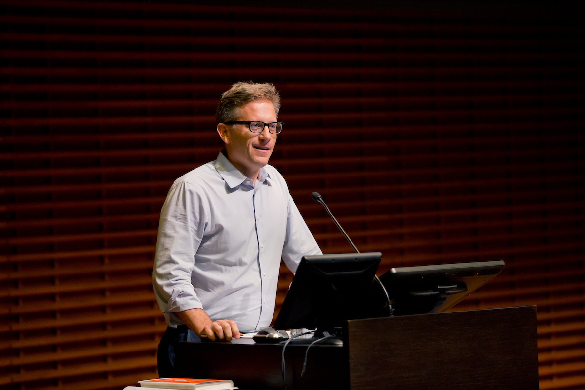 Robert Reich, Professor of Political Science and director of Stanford's McCoy Center for Ethics in Society, talks about capitalism and democracy at Stanford University CEMEX Auditorium on April 12, 2016. Photography By: Christine Baker-Parrish